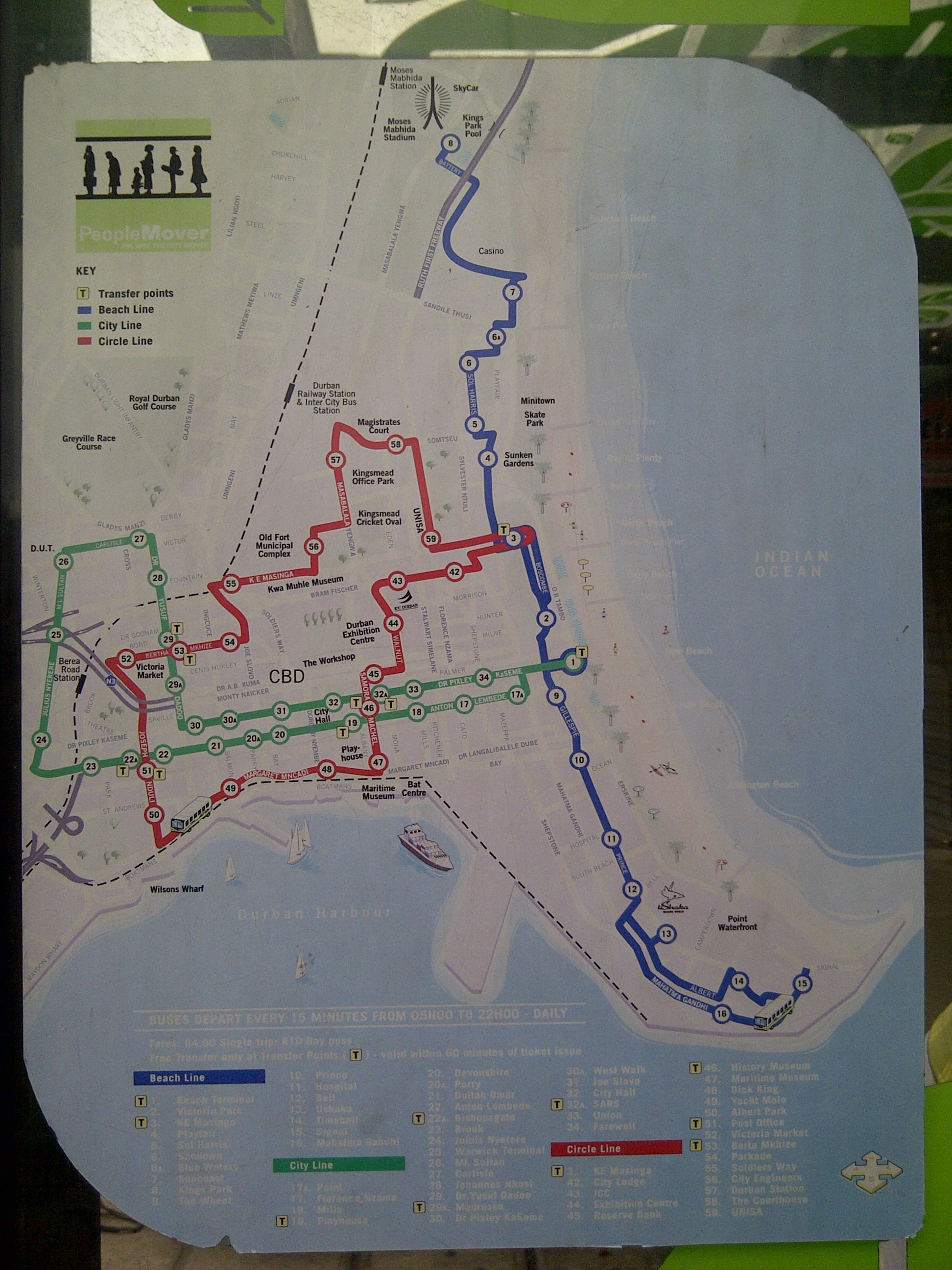 Durban - South Africa